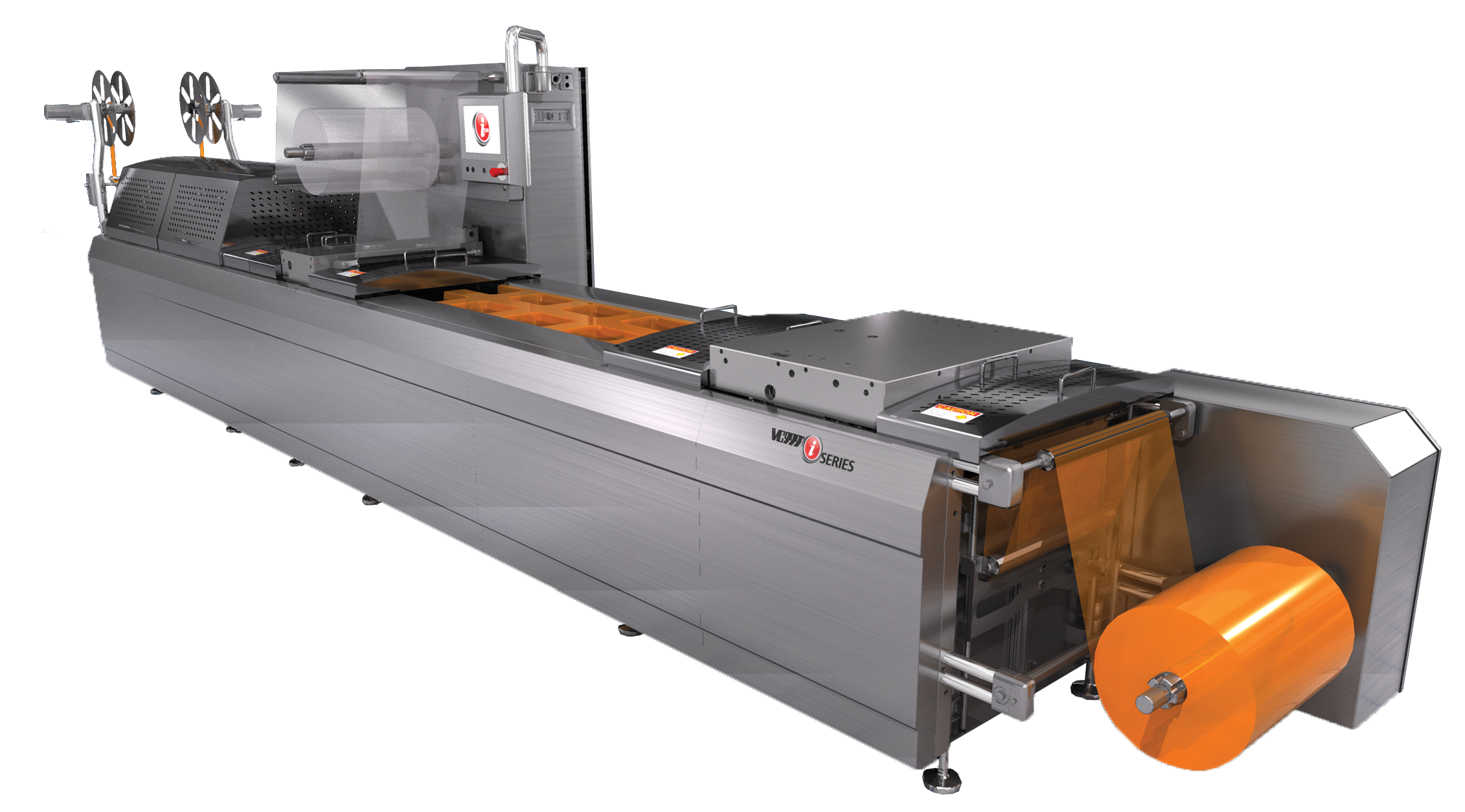 This is a industrial thermoform packaging machine. This is used in the packaging of food, non-food, medical, and pet food applications.